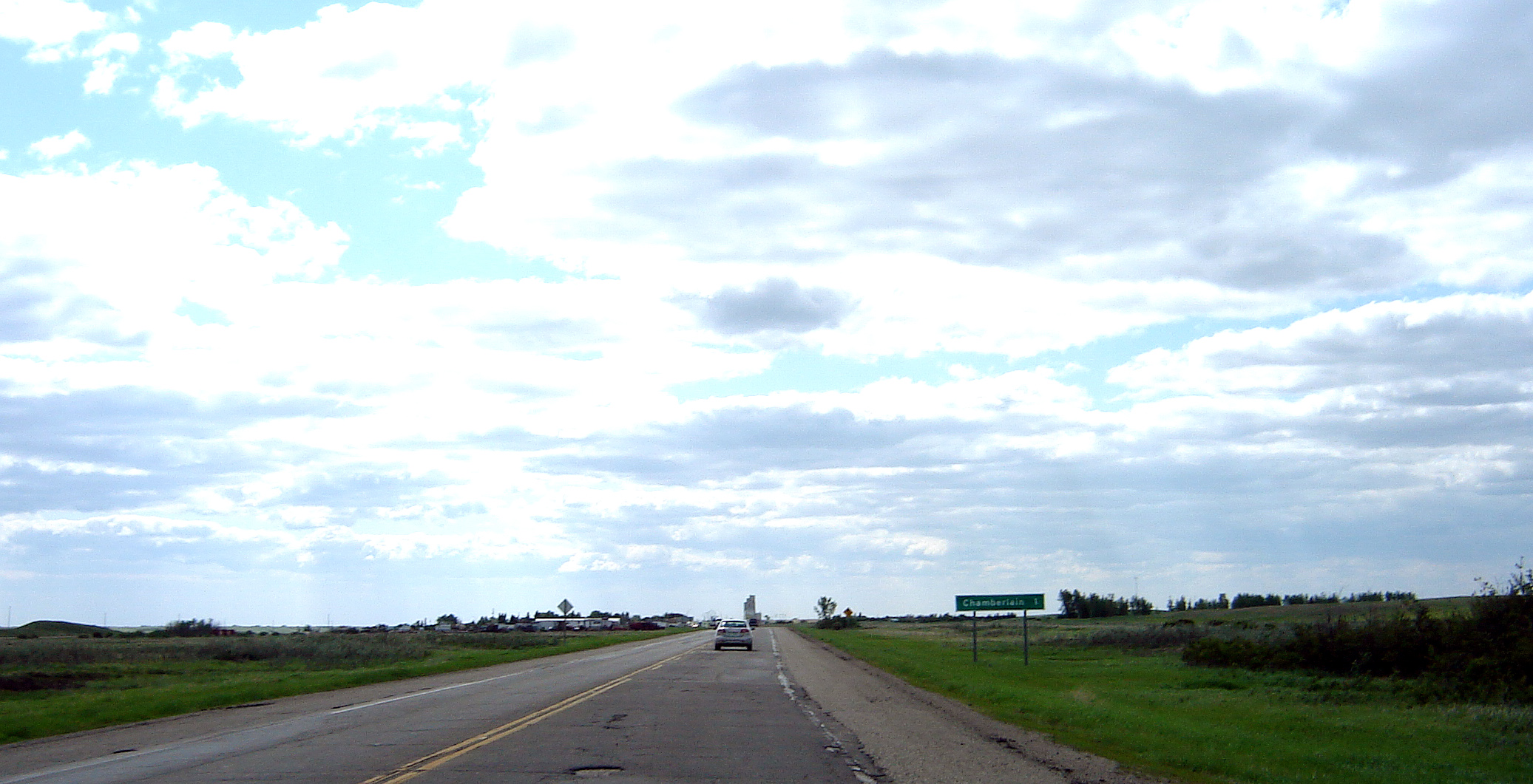 Chamberlain 1 Road Sign Saskatchewan Highway 11, Louis Riel Trail - highway 2 concurrency travelling south from Saskatoon to Regina Road Information Sign - Saskatchewan Highway 11 South, Louis Riel Trail: Note the divided highway is now a two way highway through Chamberlain